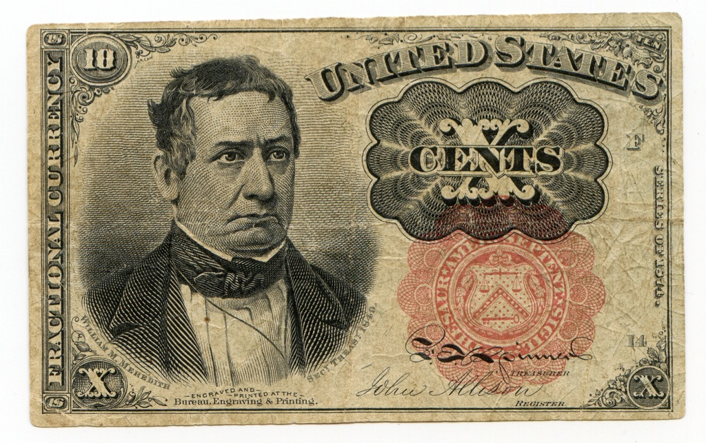 Front side of an 1874 U.S. Currency Fractional 10 Cent Note, showing William M Meredith, Secretary of the Treasury